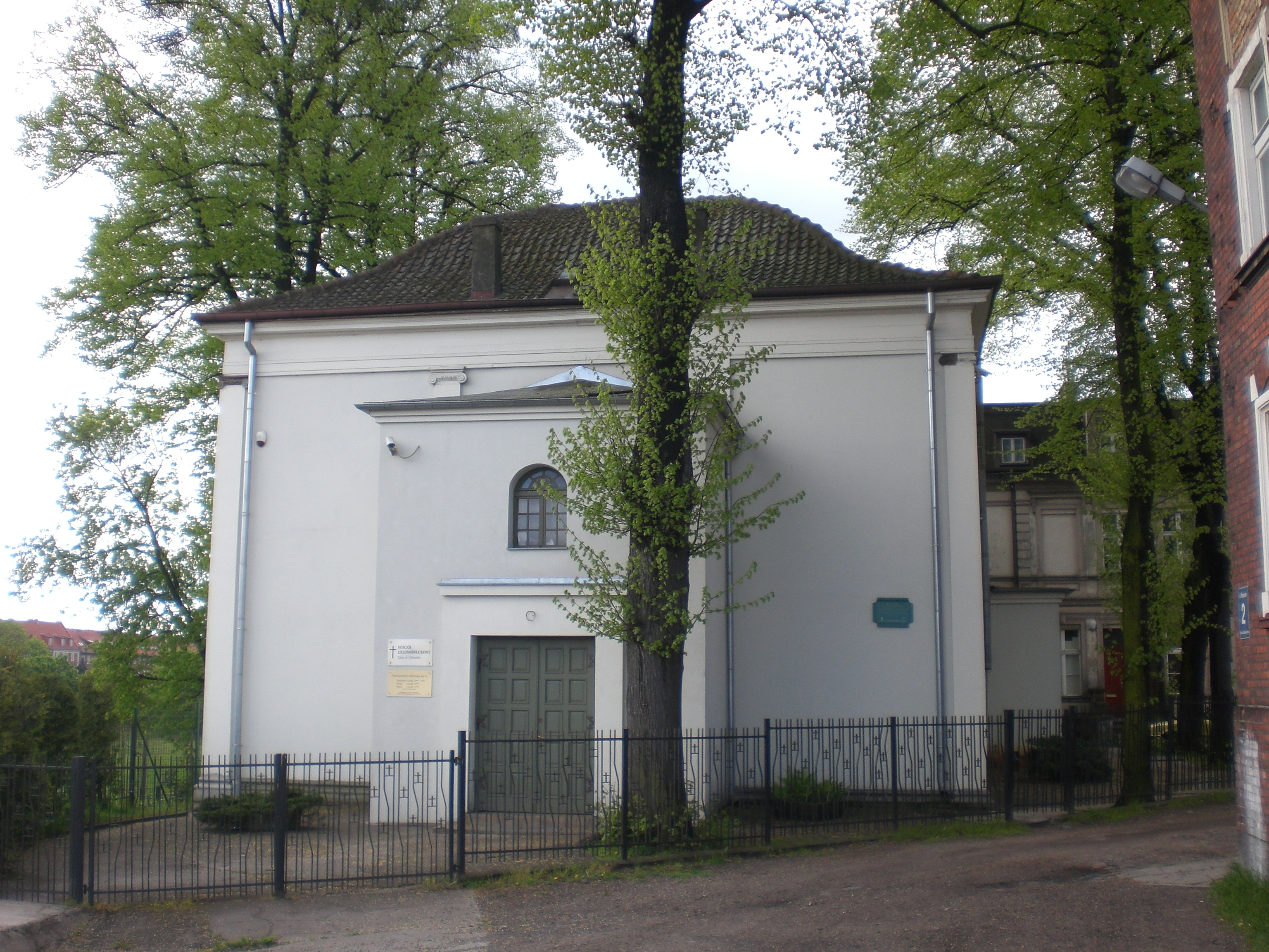 Ex-Mennonite, now Pentecostal Church in Gdańsk